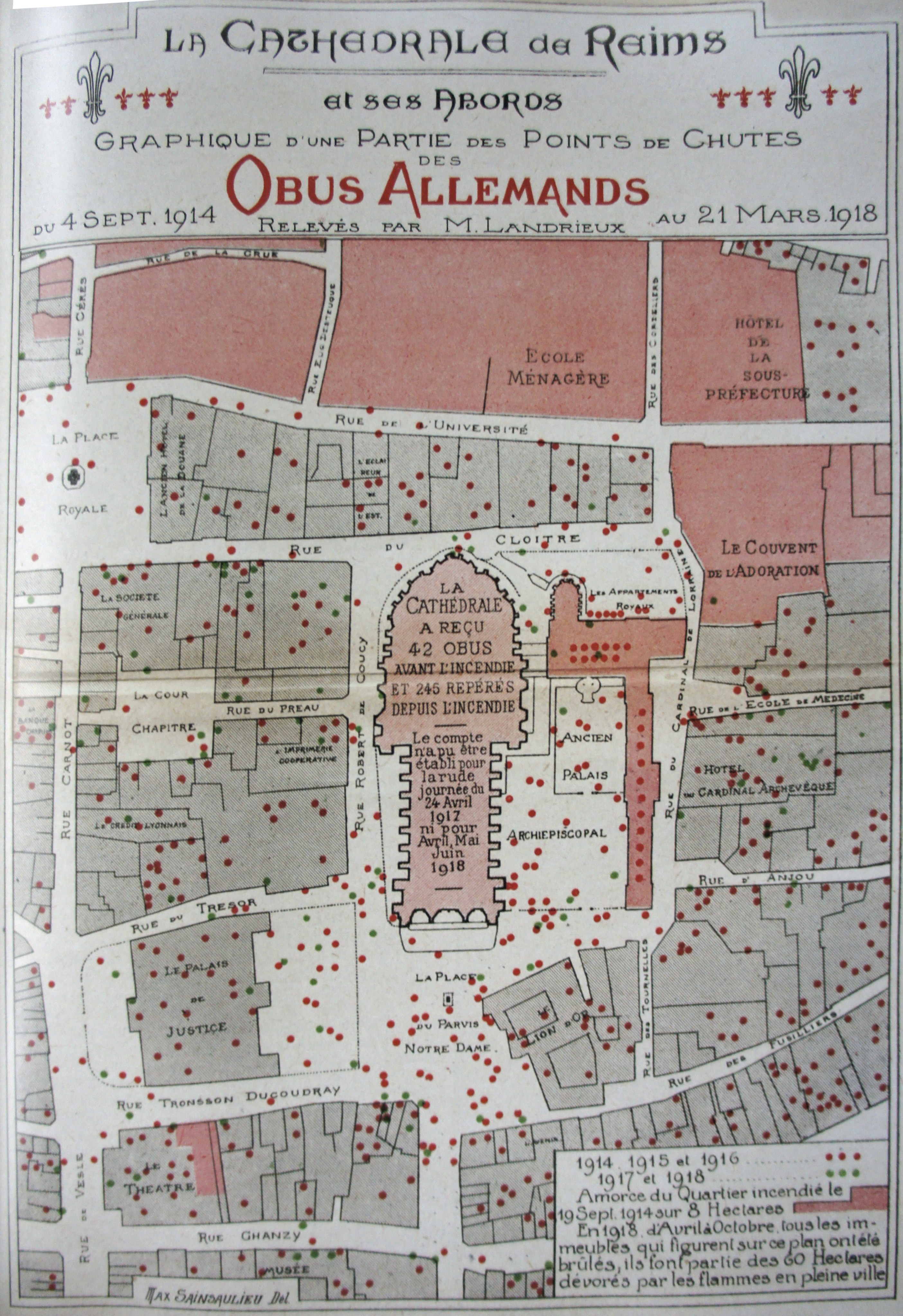 de la cathédrale.